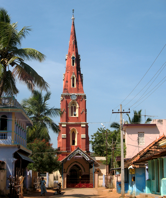 A Pragasapuram Holy Trinity church image from Thoothukudi Nazareth Diocese.